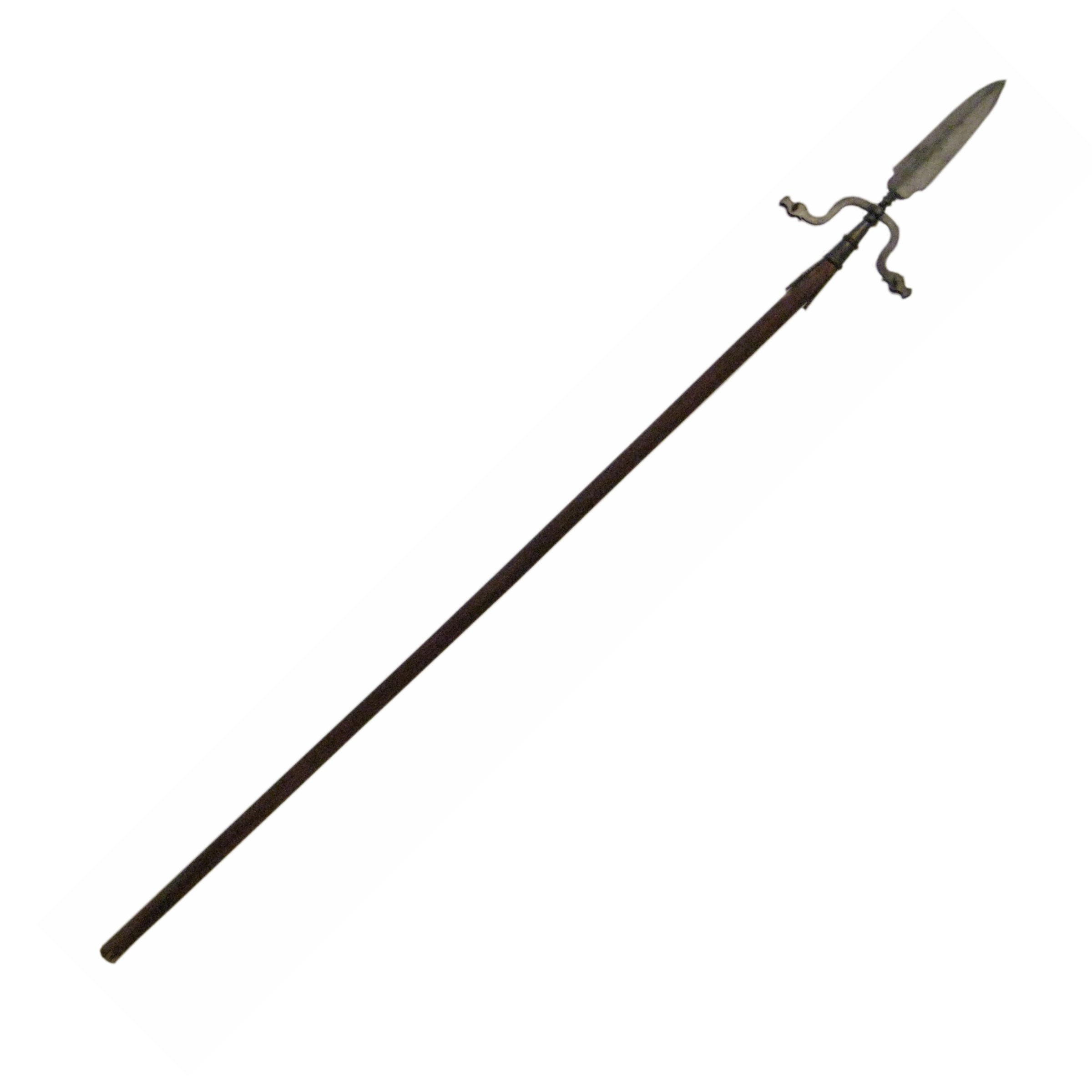 Linstock